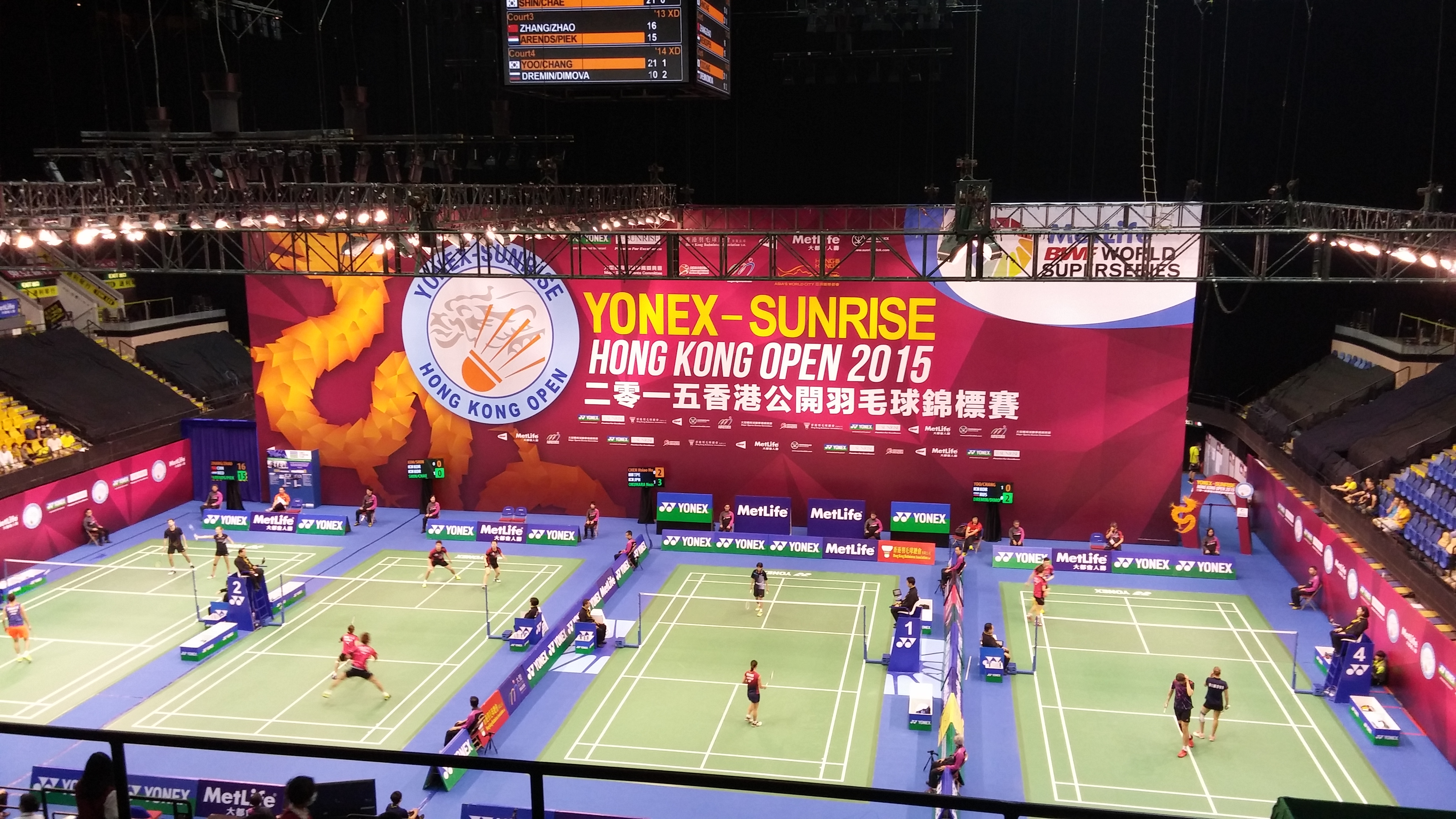 Hong Kong Open Badminton Championships 2015 - The courts and setting in Hong Kong Coliseum